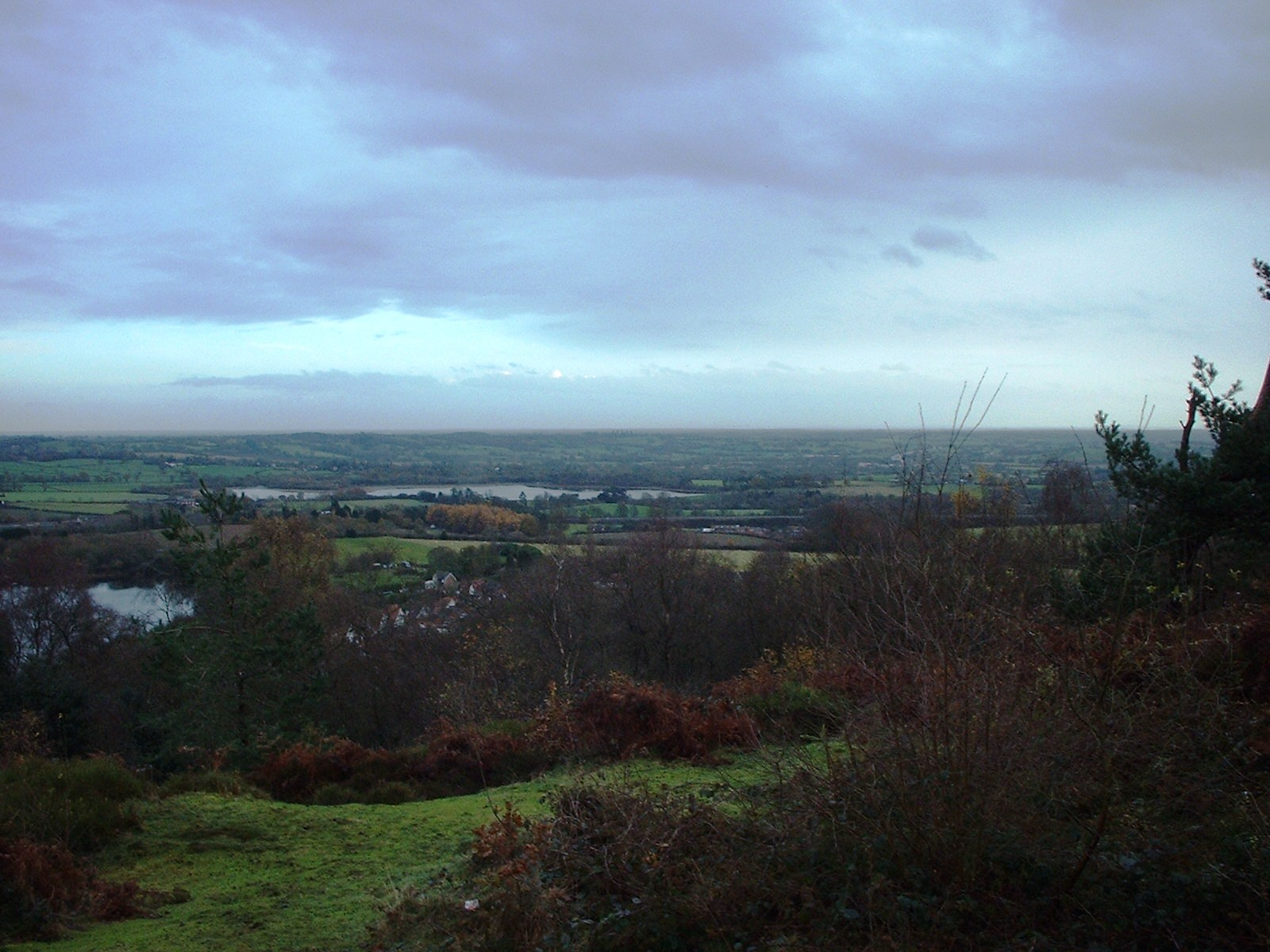 A view from Bilberry Hill, Lickey Hills Country Park, nr Birmingham, England, UK, taken by the contributor.